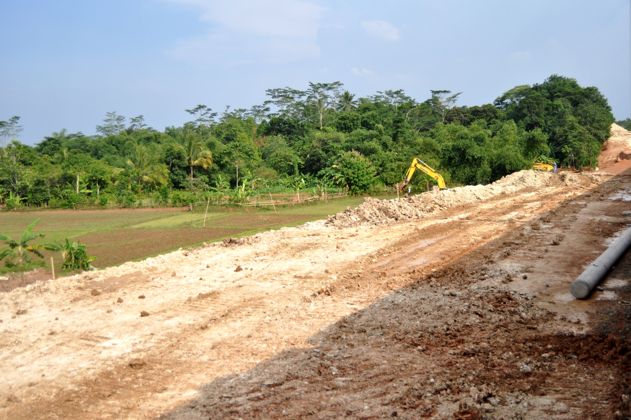 Railway double track construction in Maja-Rangkasbitung commuter line segment, between Maja and Citeras train station.